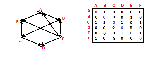 Ma trận kề có hướng